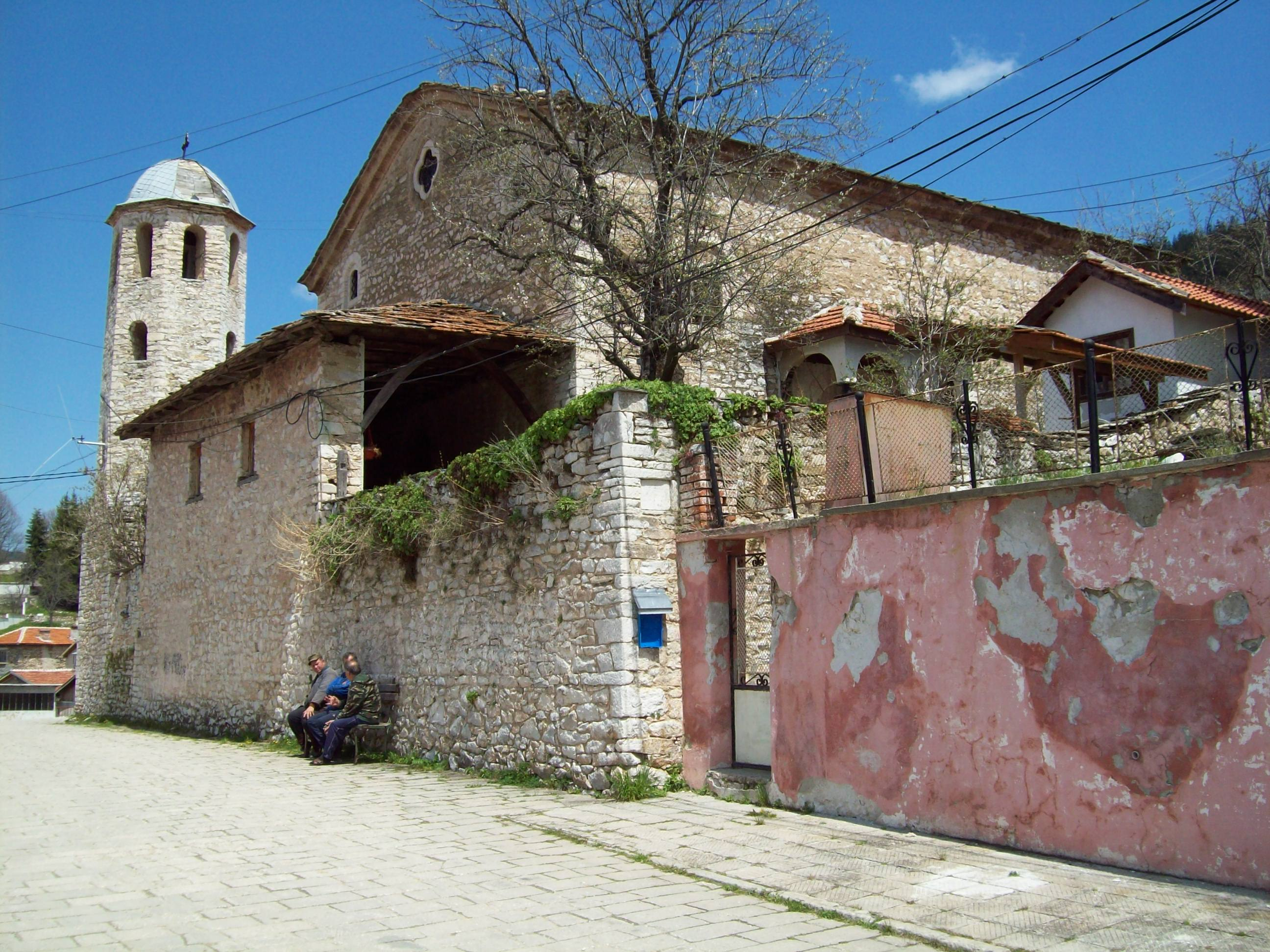 St. Michael church, Lilkovo